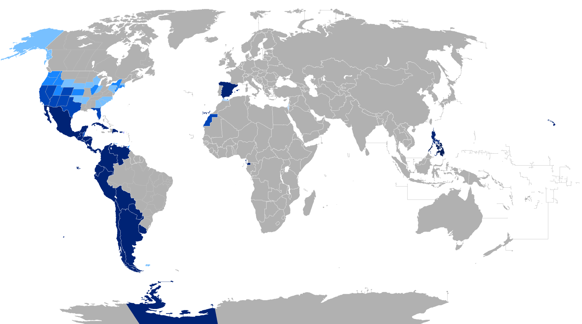 hispanophone global world map language